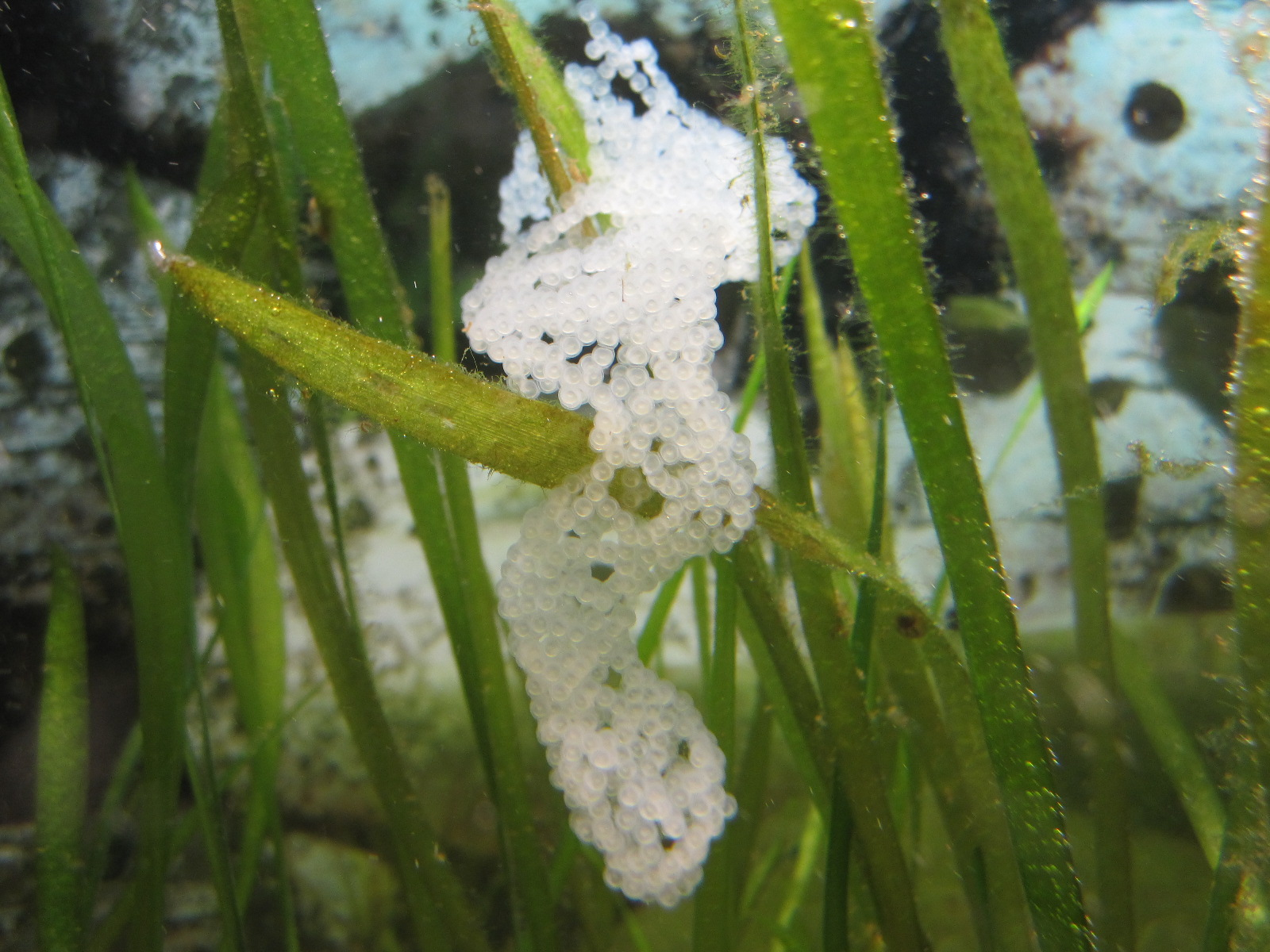 Spawn from european perch